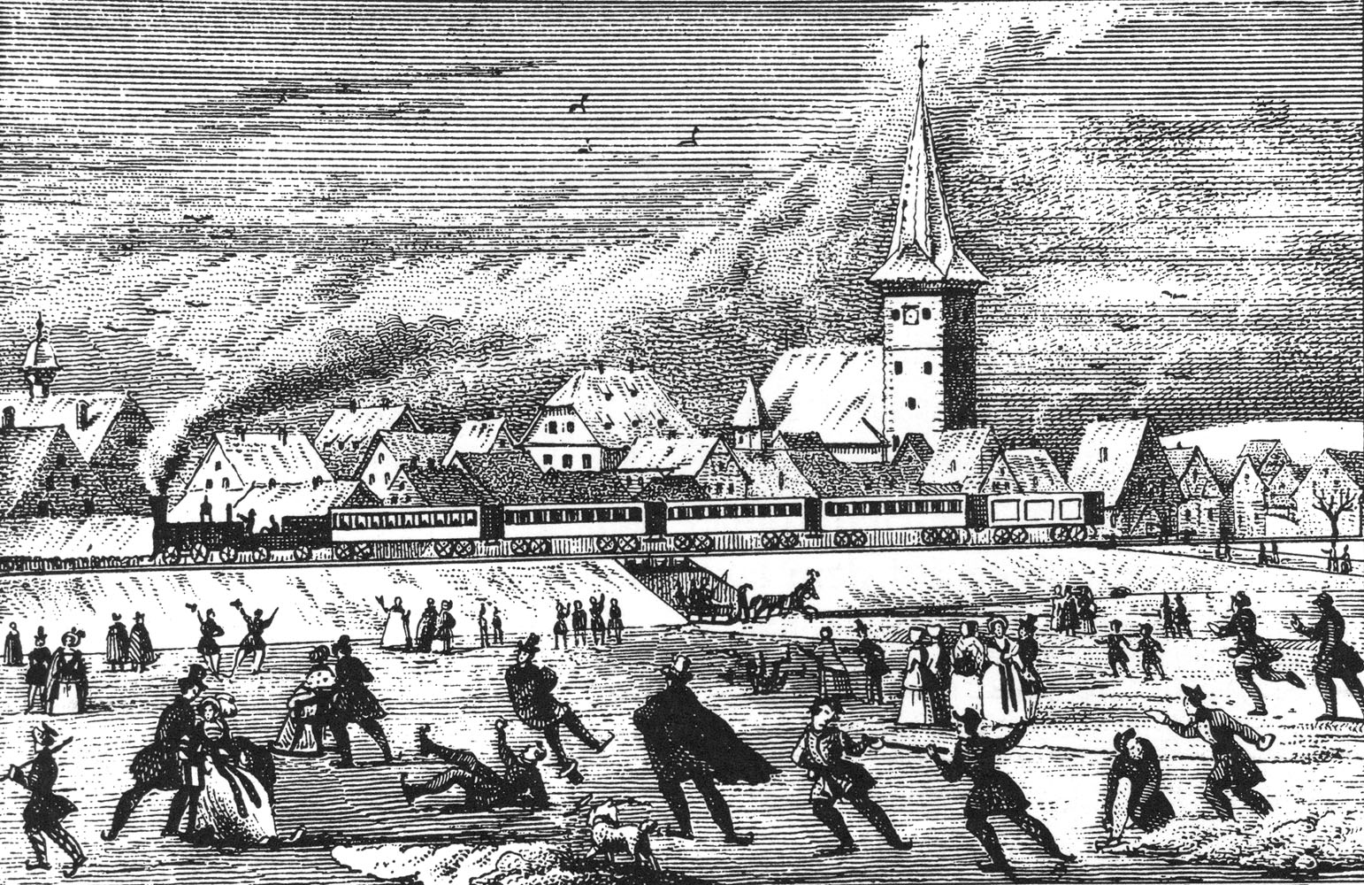 View at Böckingen and the frozen Böckingen's Lake, between the lake and the city a train of the Nordbahn is passing (lithography of 1848 or some year later).